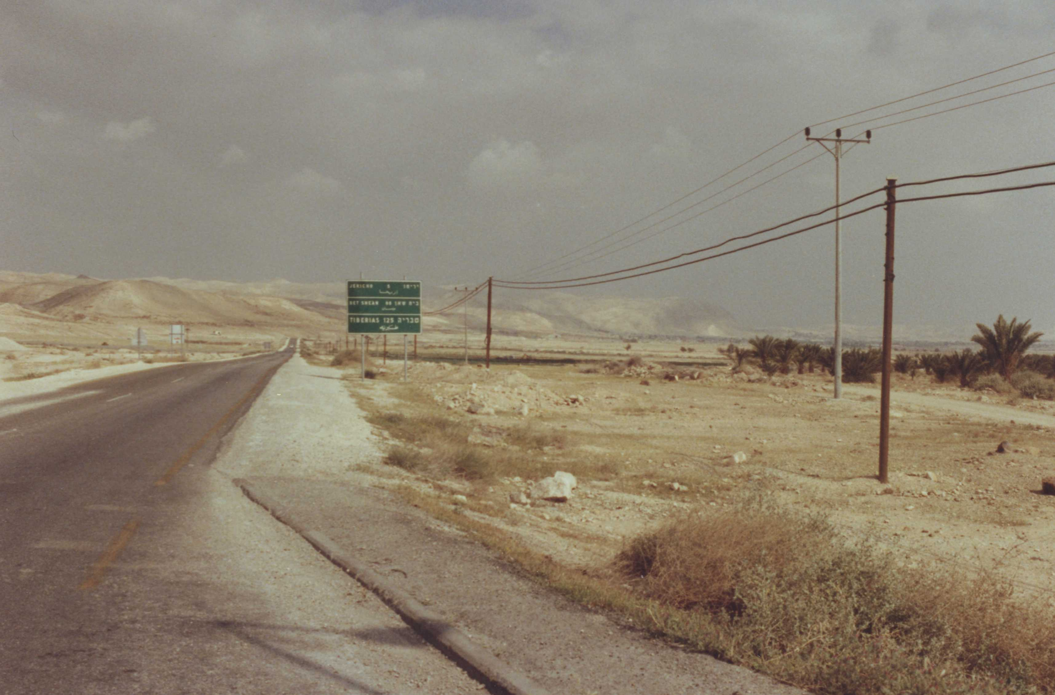 Road B 90 near Jericho (Jordan Valley, West Bank), at the Junction with Highway 1 with a view to the Judean Desert (left)